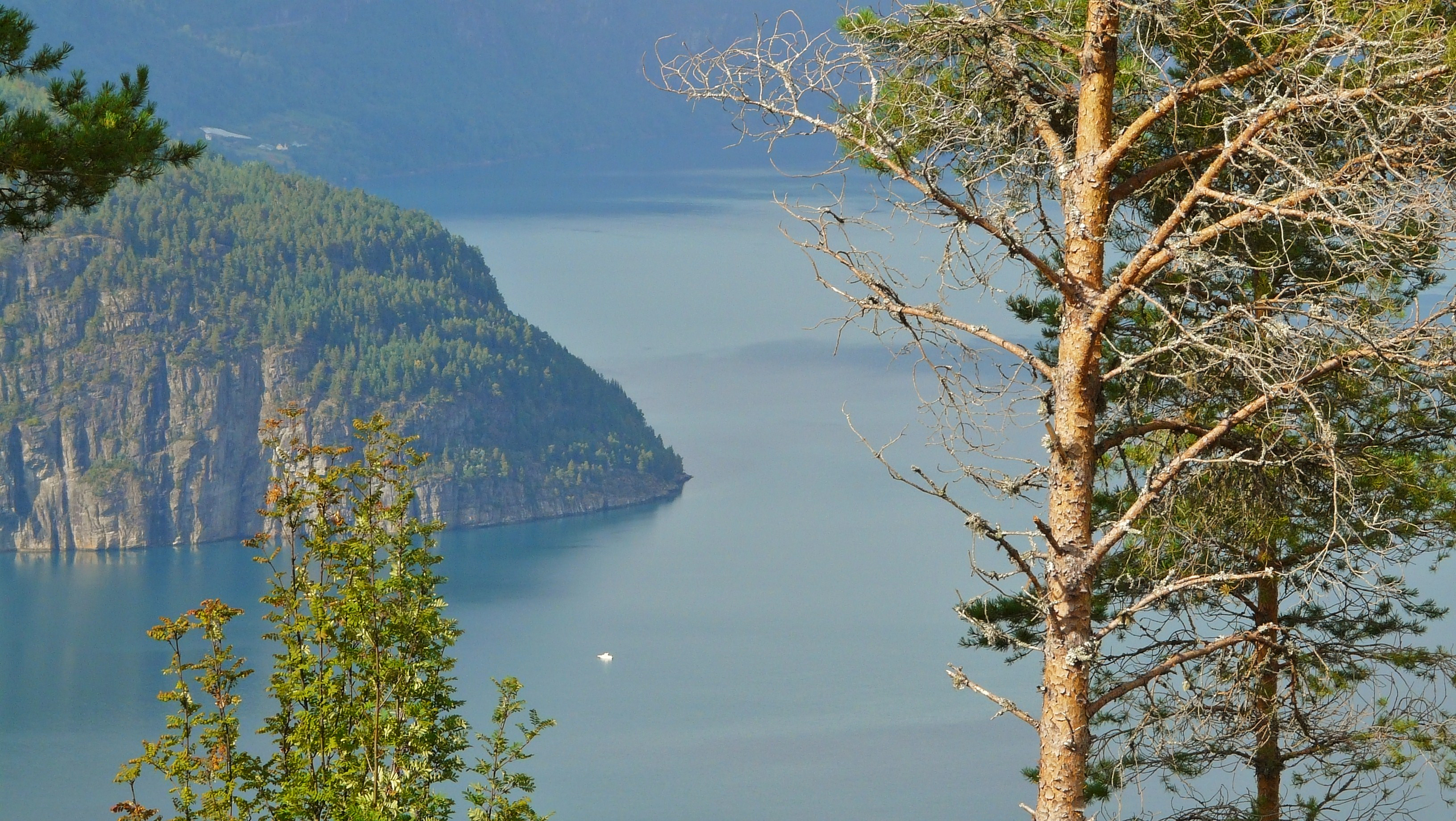 A view to Innvikfjorden (Nordfjord) as seen from by the Riksvei 60 coming down from Utvikfjellet. The picture has been taken in 2008 August. The cape in the picture is Ulvedalsneset.